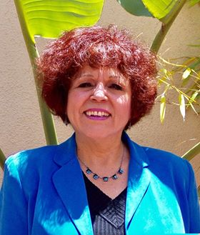 Writer and professor Lucía Guerra Cunningham